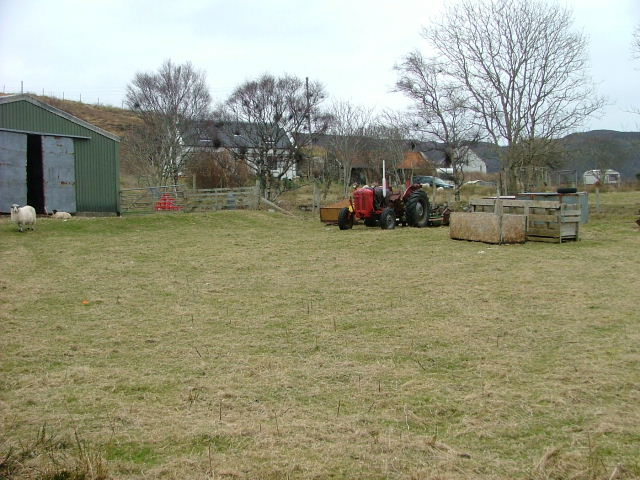 Croft in Achnaloich. South of Tarskavaig.